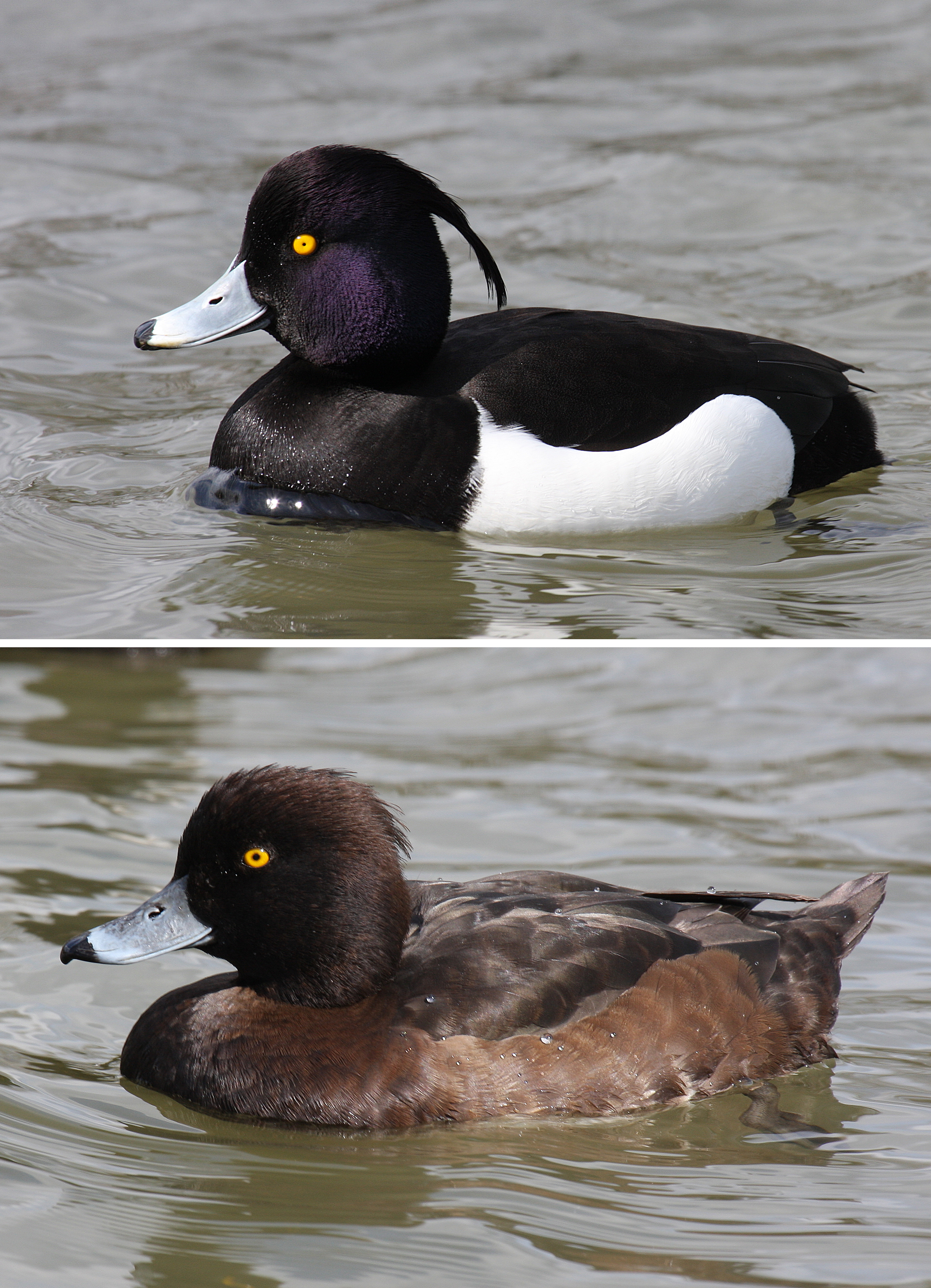 male and female Tufted Duck, Wohrasandfang, Kirchhain, Germany